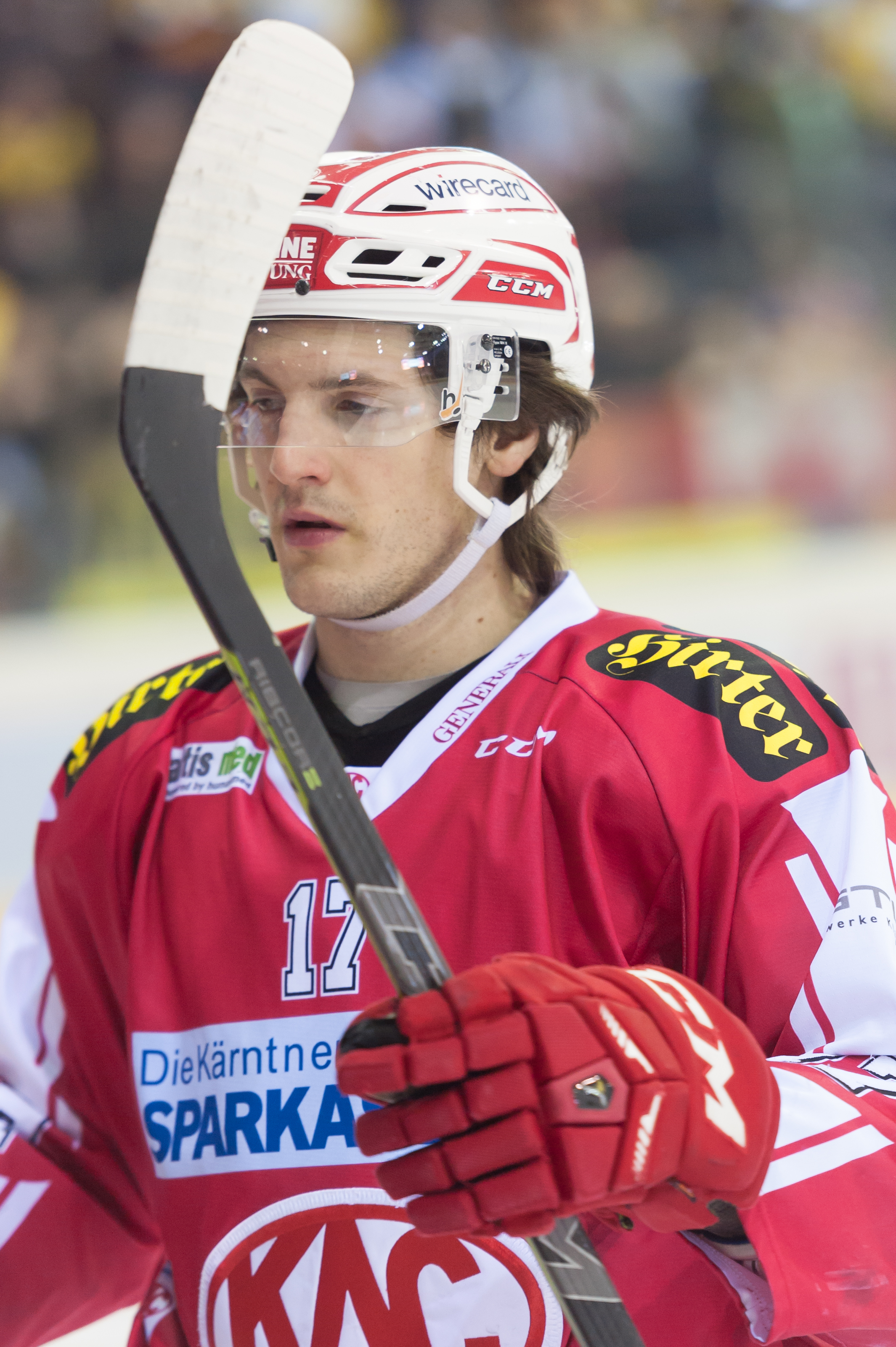 EBEL Vienna Capitals vs EC-KAC 2016-01-03